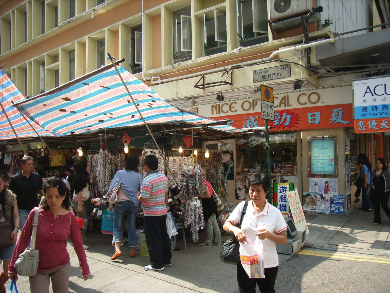 灣仔舊區街道 Wanchai old streets, Hong Kong. (A1 Wong East).